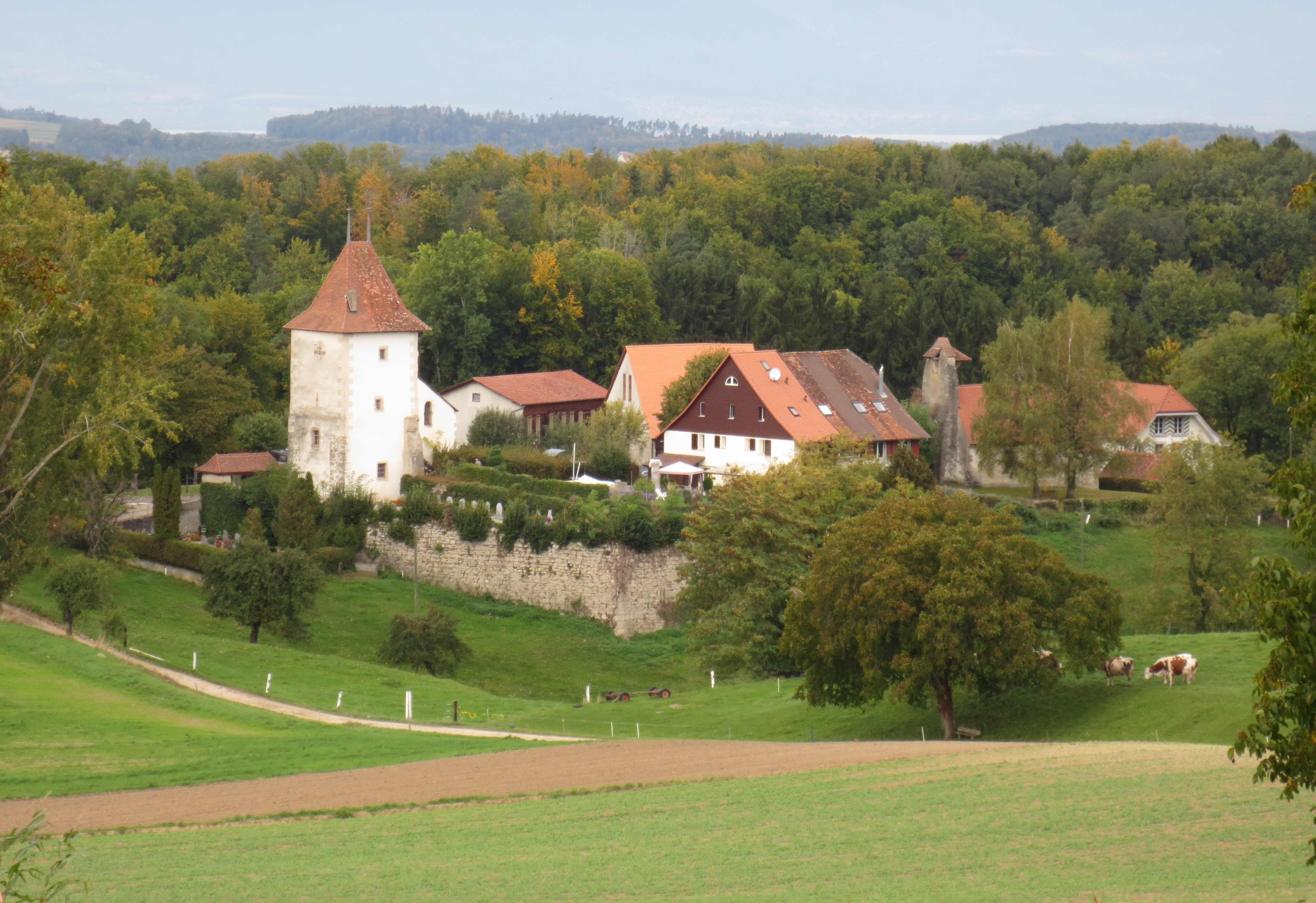 The Villarzel tower on the left and the church on the right, Villarzel, Canton of Vaud, Switzerland